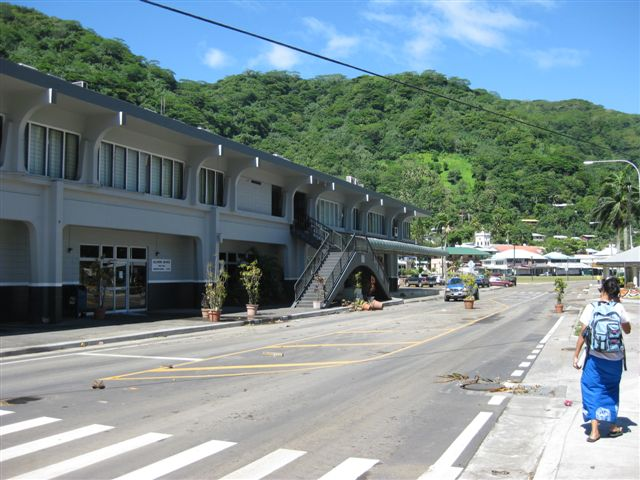 Plants washed onto the road at the post office in Pago Pago, American Samoa